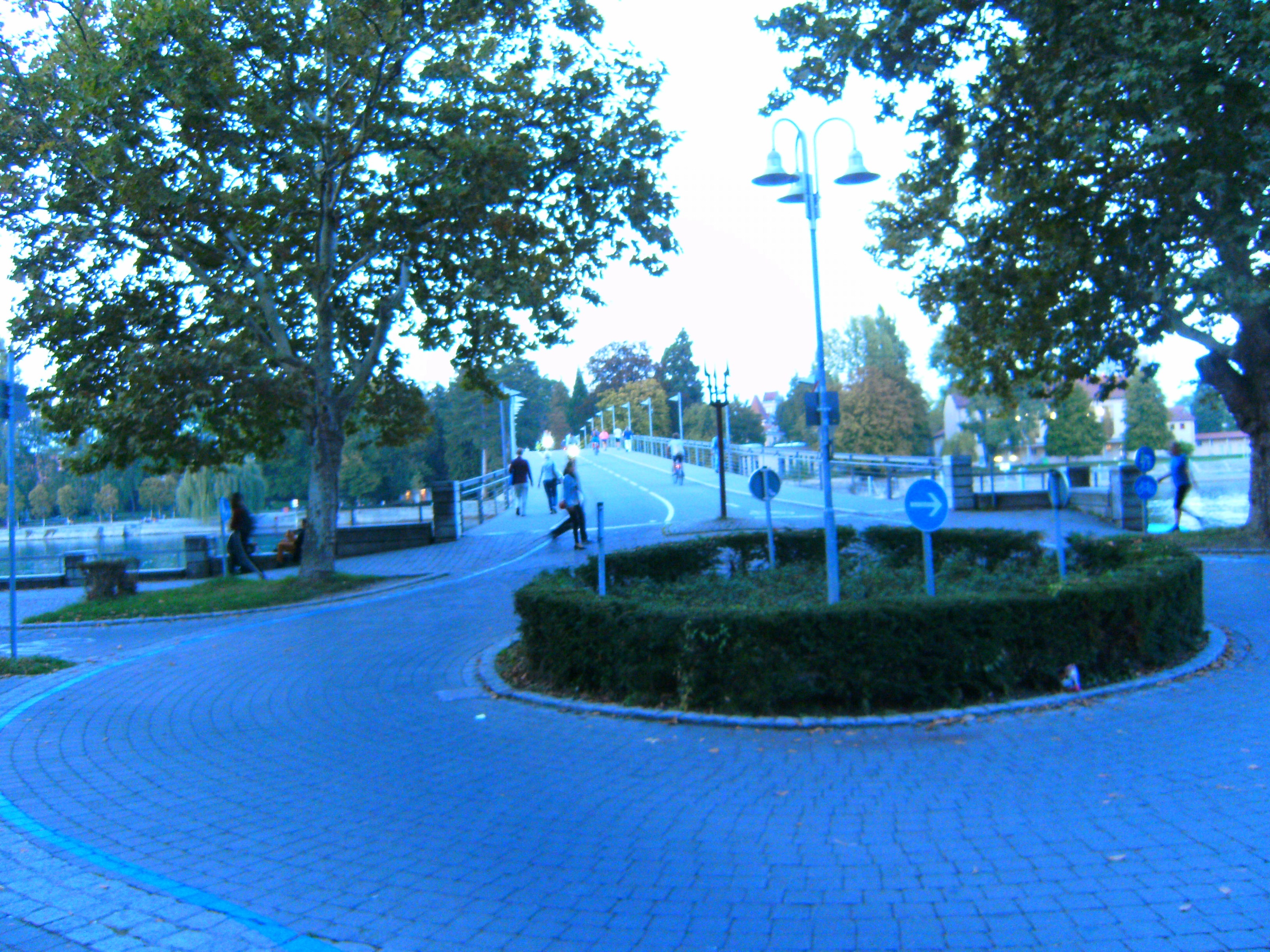 Konstanz, Germany, Schottenstraße: circle for bycicles leading to the bridge for bycicles over the river Rhine.